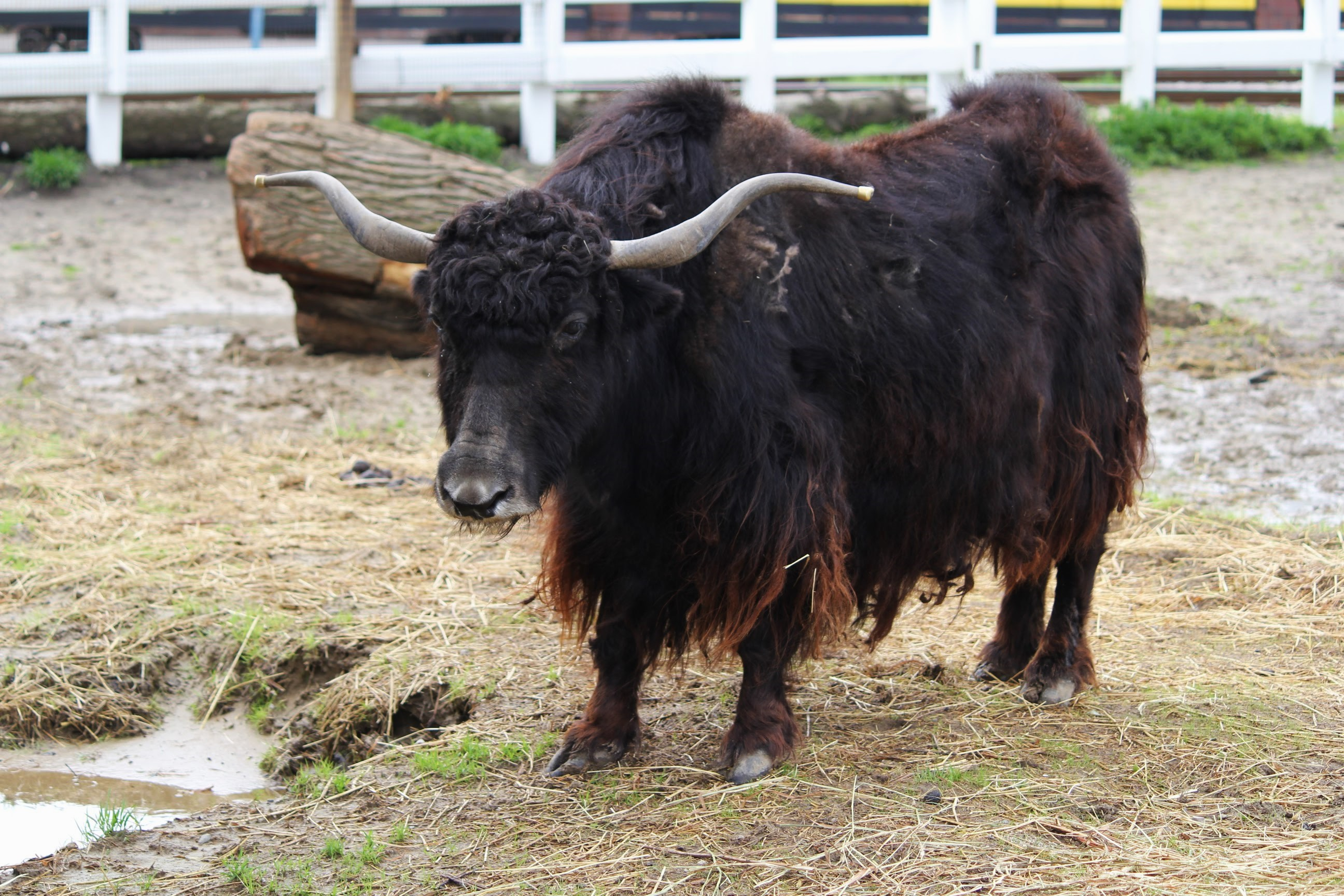 Yak at Detroit Zoo